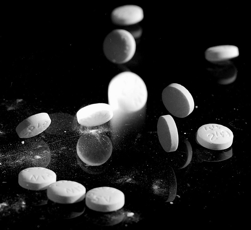 Used a sound trigger connected to Cactus wireless transmitter. The Cactus receiver triggered a 430EX on the left. Reflector on right. Dark glass on base for the reflection.Aspirin